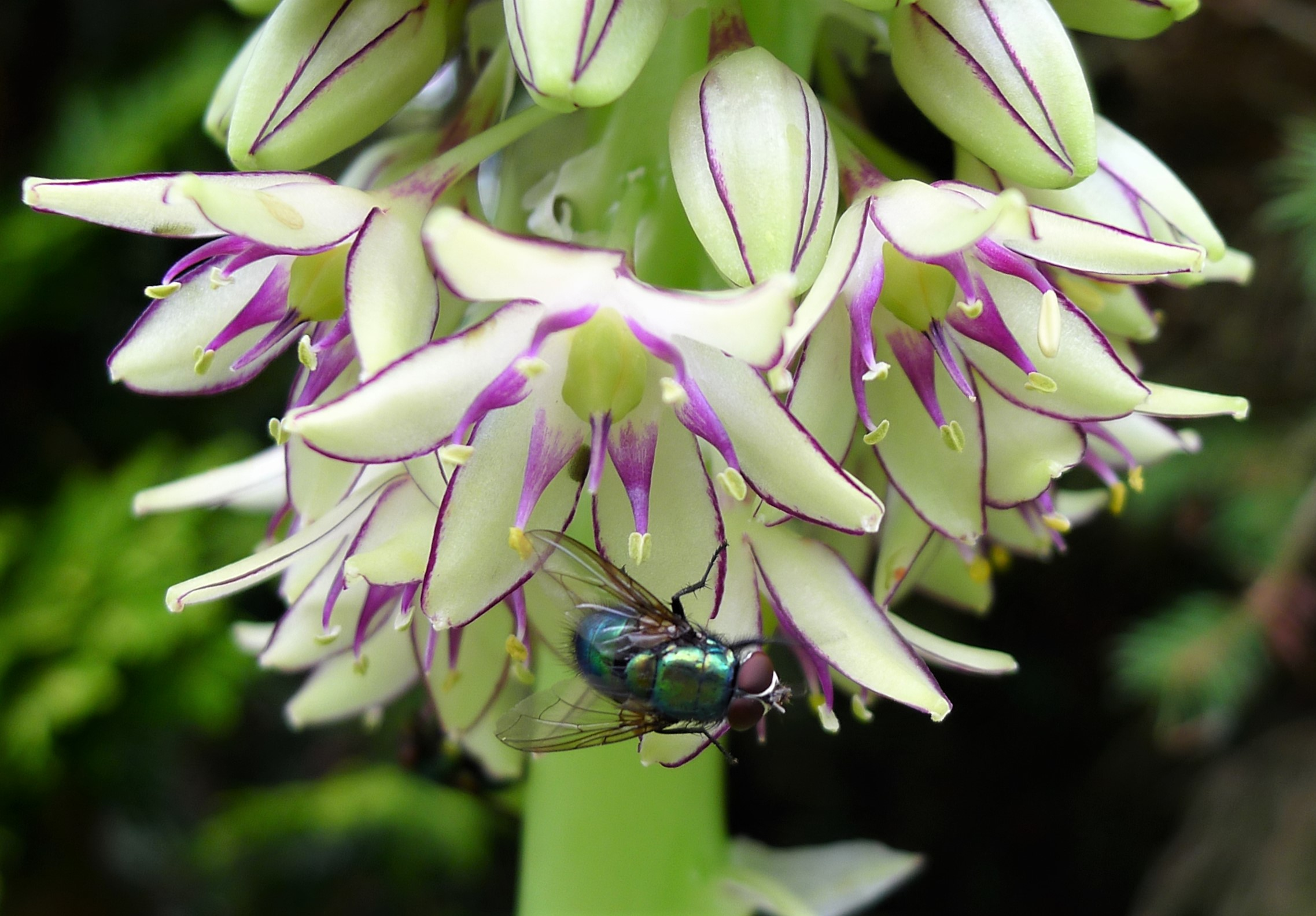 Cradley, Malvern, Worcs. SO729470